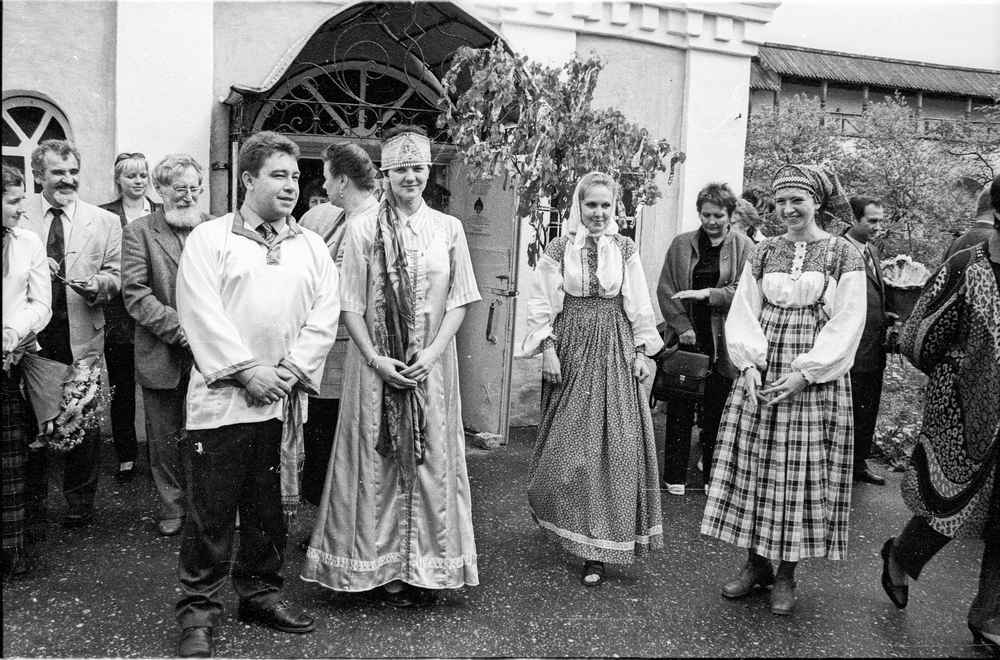 Employees and visitors of Pereslavl museum-preserve.